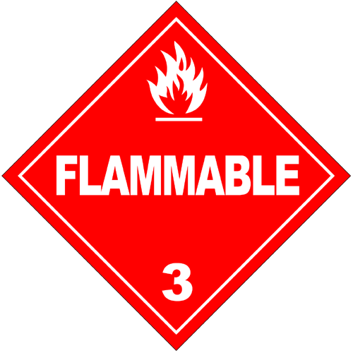 Source: "Emergency Response Guidebook." U.S. Department of Transportation, 2004, pages 16-17.